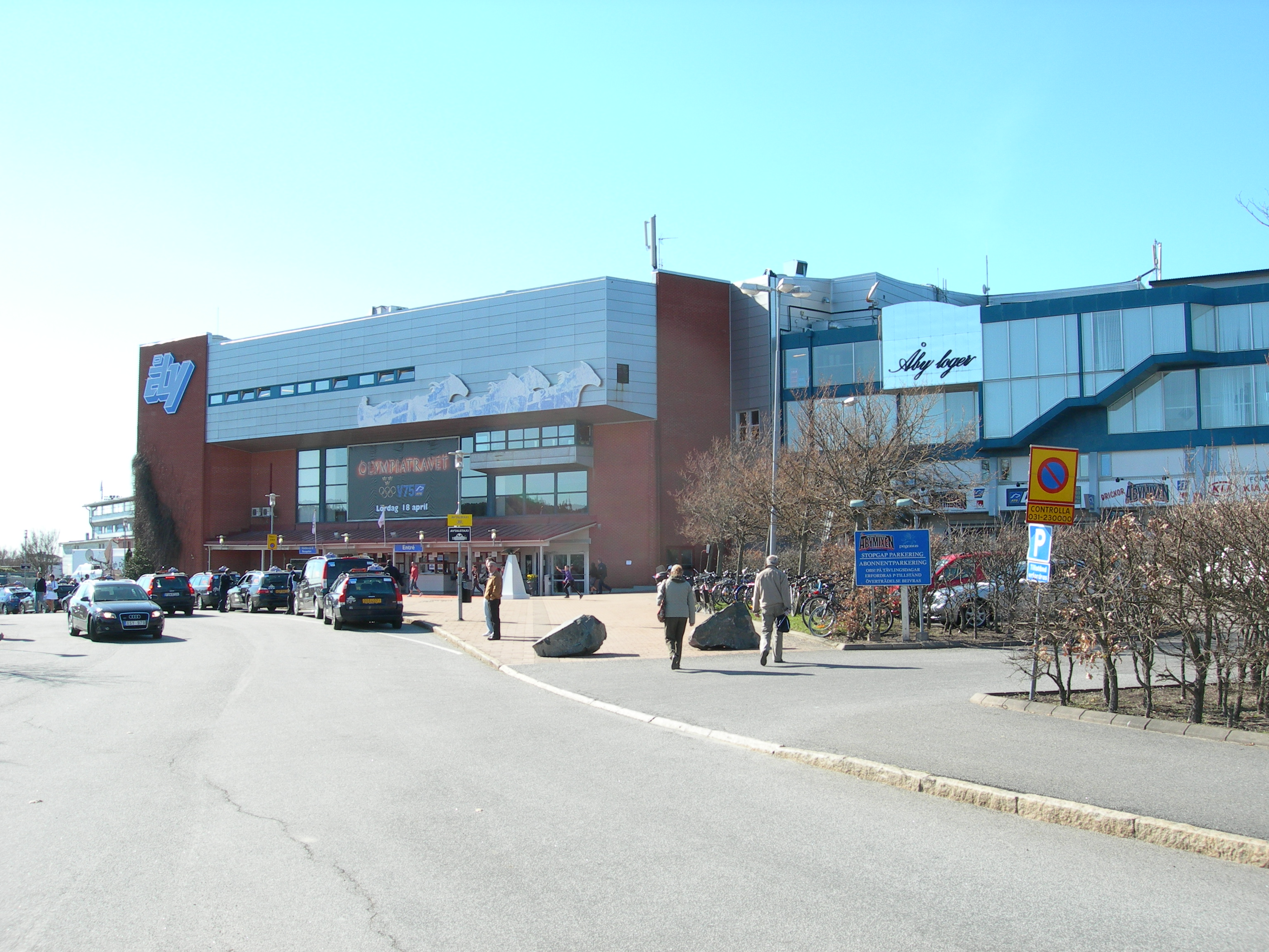 Åbytravet in Mölndal, Sweden. Photographed during "Olympiatravet".